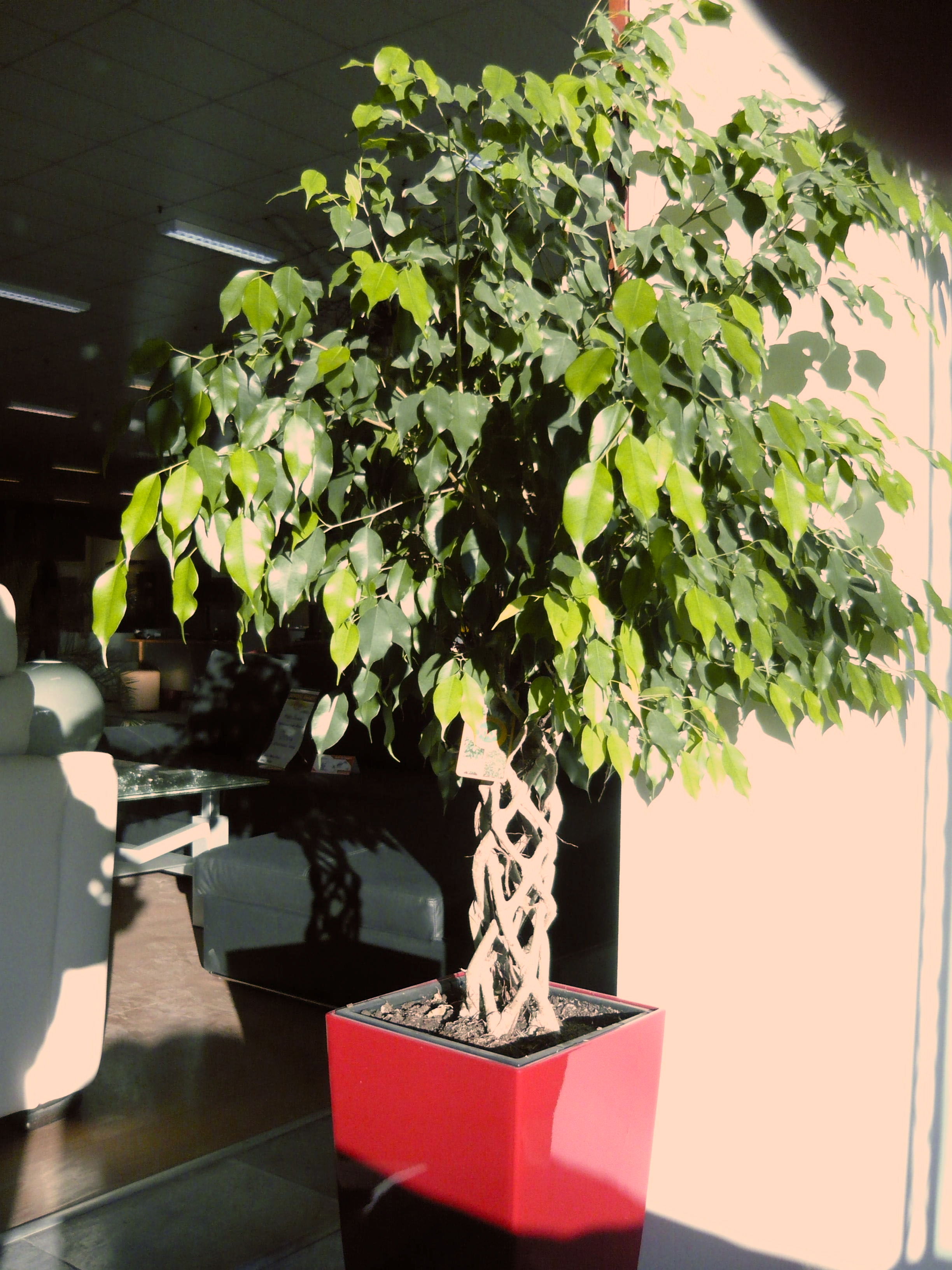 Ficus benjamina